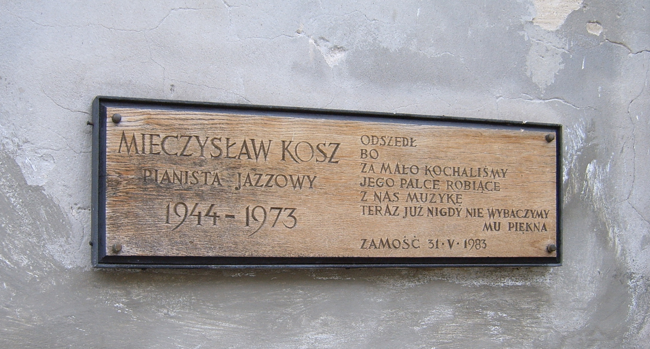 Mieczysław Kosz plaque in Zamość, Poland